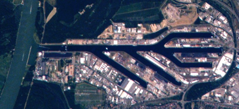 Rhine harbour of Karlsruhe as seen on a photo taken from ISS